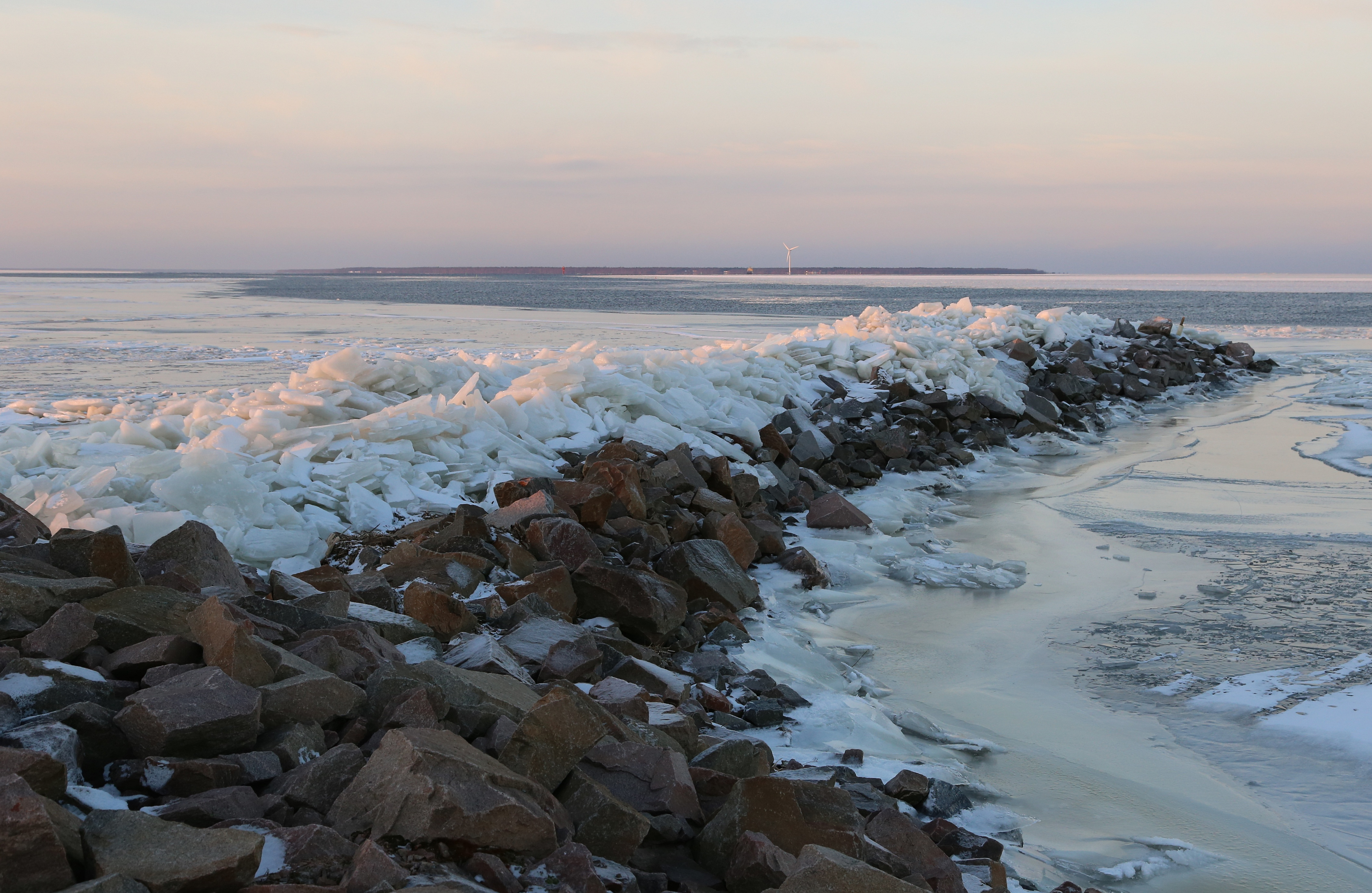 A breakwater in Riutunkari, Oulu.